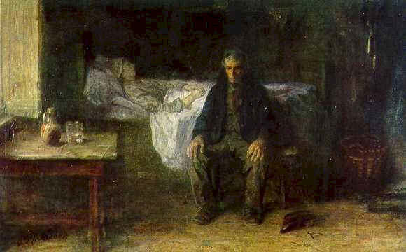 Jozef Israëls (Jozef Israels) work titled "Solo En Mundo", translated as "Alone in the World"